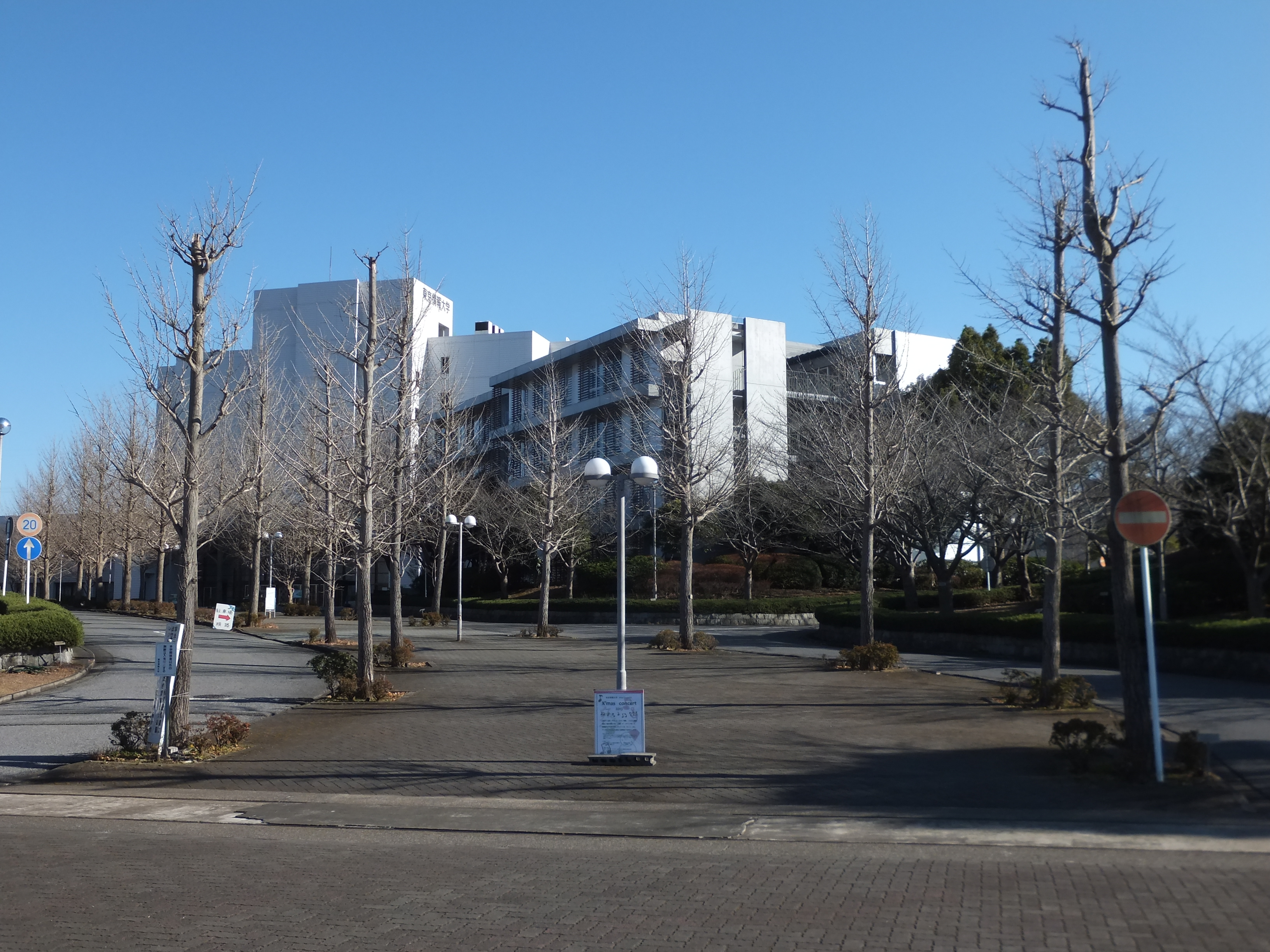 Tokyo University of Information Sciences in Chiba, Chiba, Japan